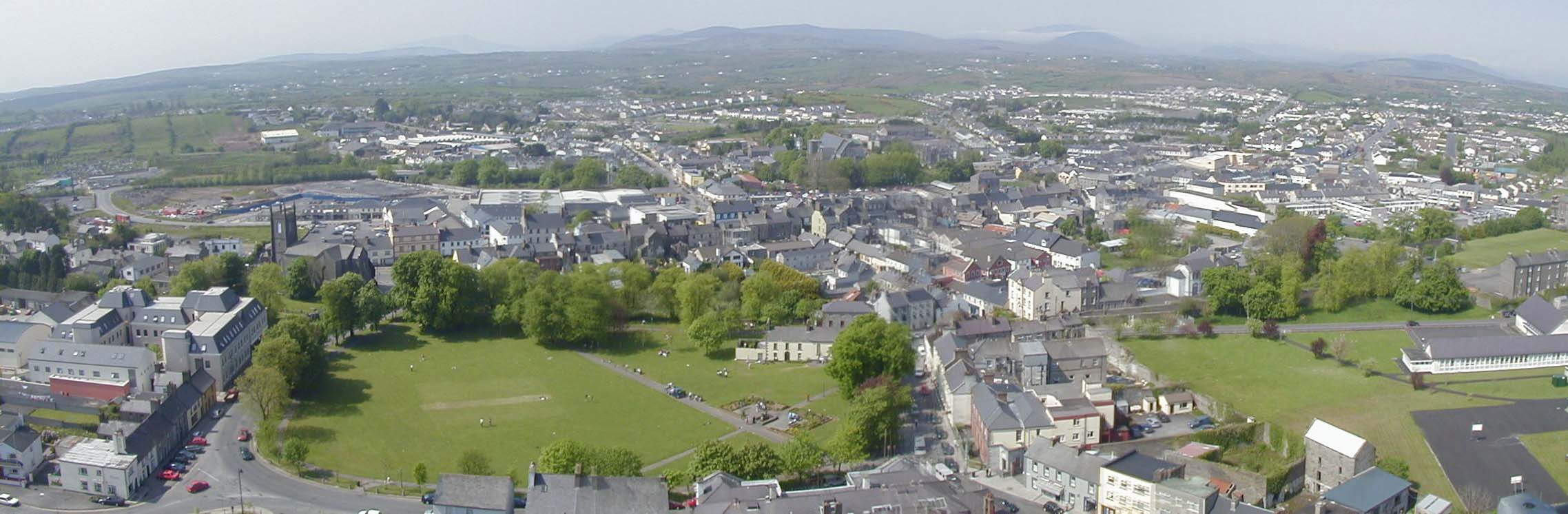 Castlebar large view from above